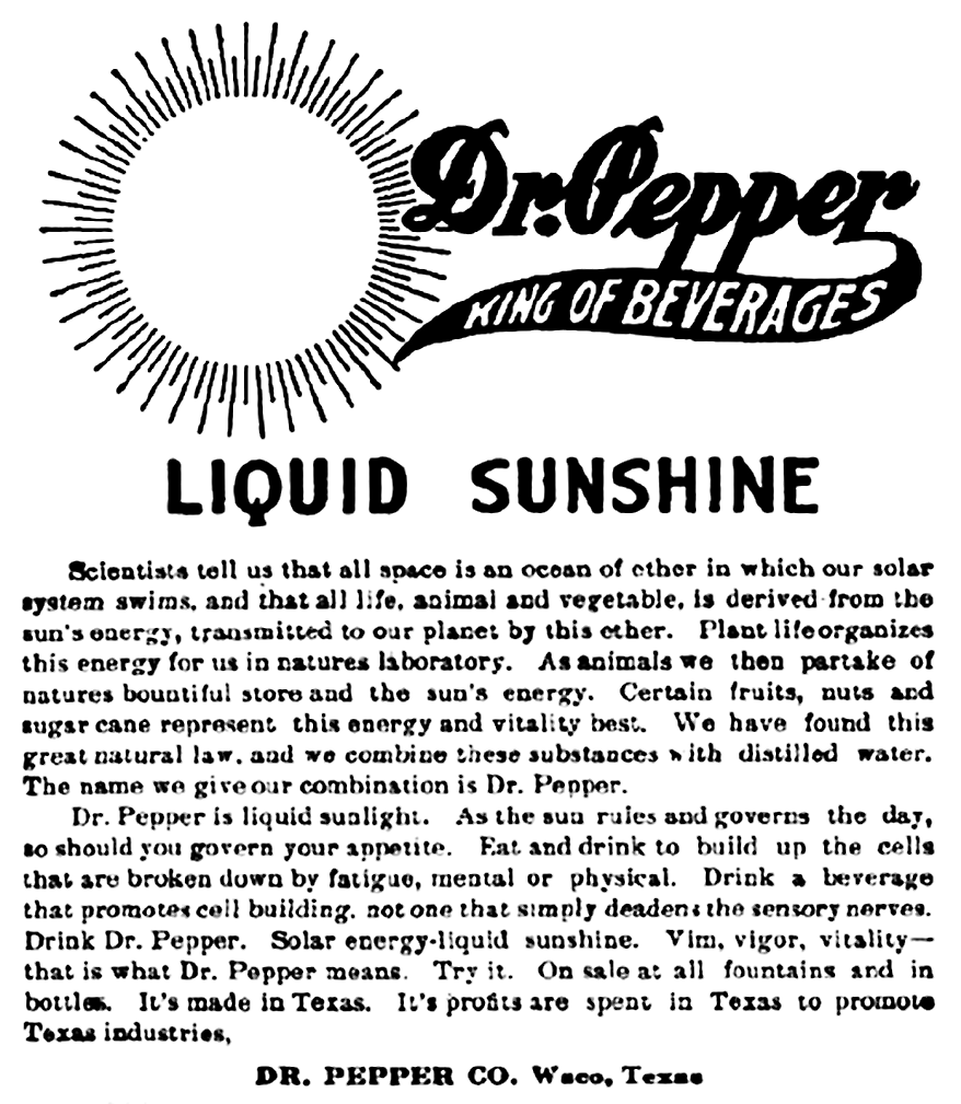 Dr. Pepper "Liquid Sunshine" newspaper ad from 1913.